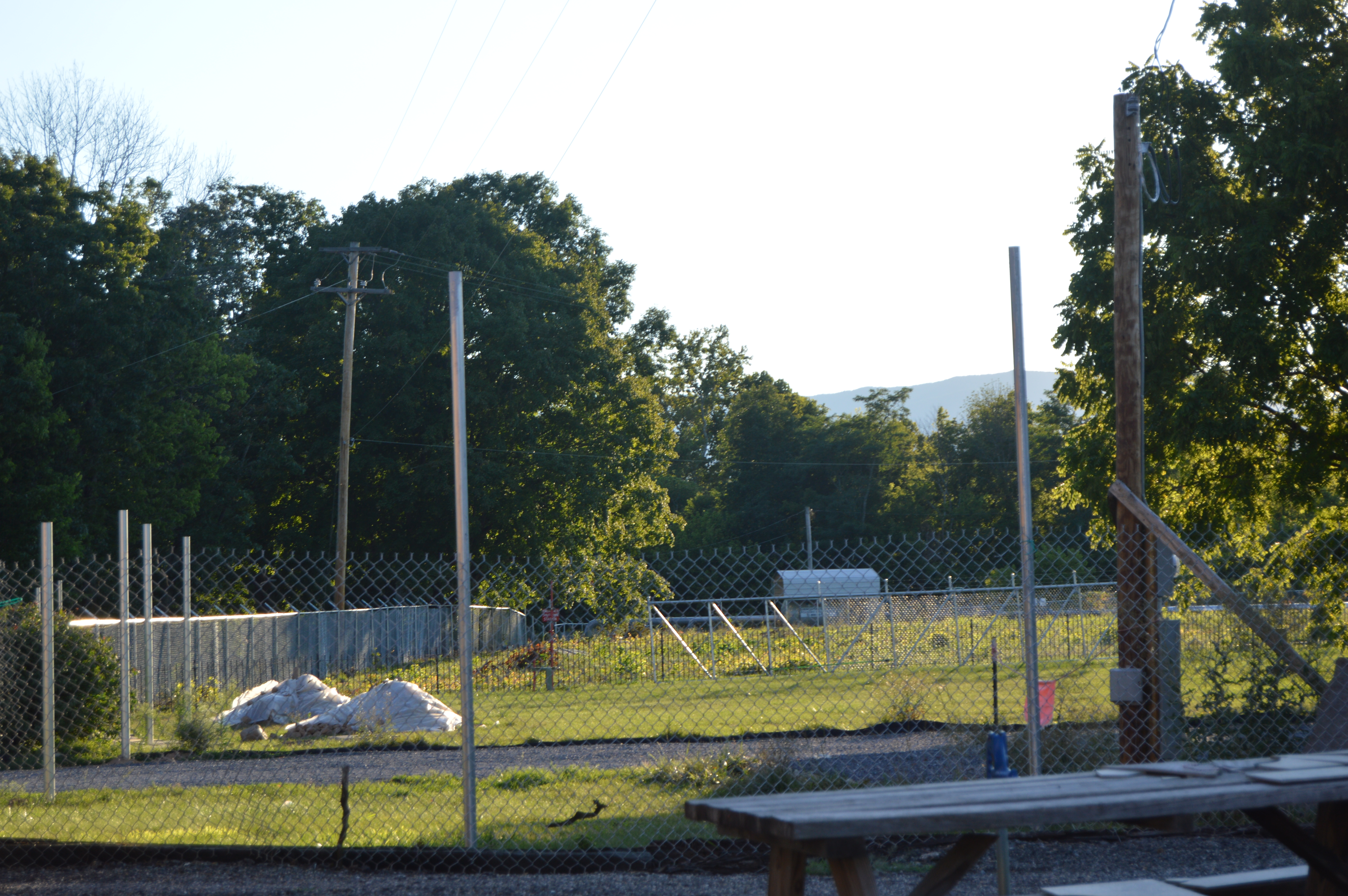 An industrial facility located between the James River and U.S. Route 220 at Gala in Botetourt County, Virginia, United States. This is the Gala Site, an important Late Prehistoric archaeological site, which is listed on the National Register of Historic Places.